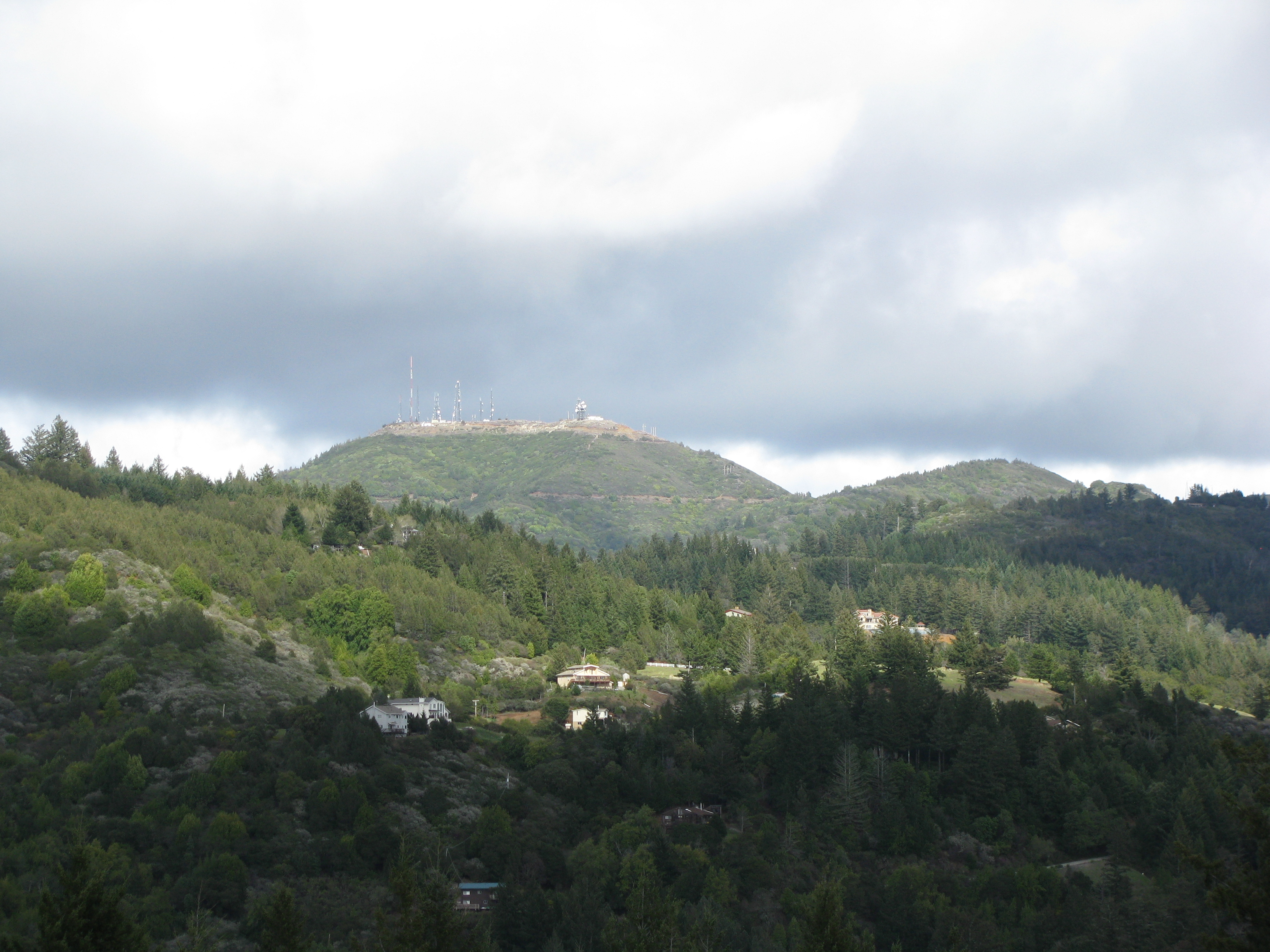 This photograph was taken after a strong spring storm from a ridge west of Loma Prieta.